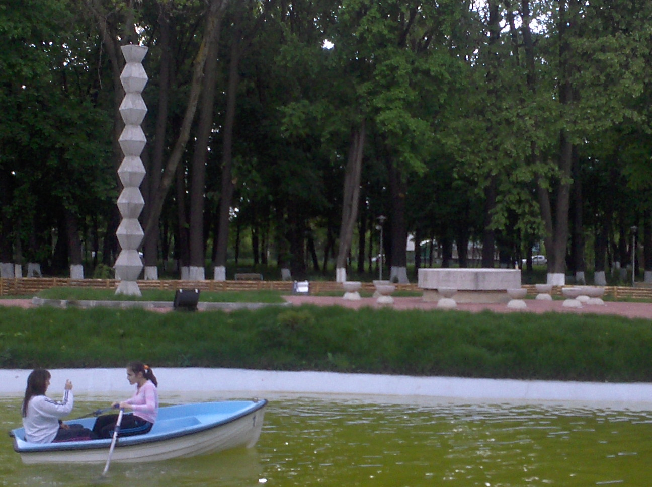 Brâncuşi Isle in Roman